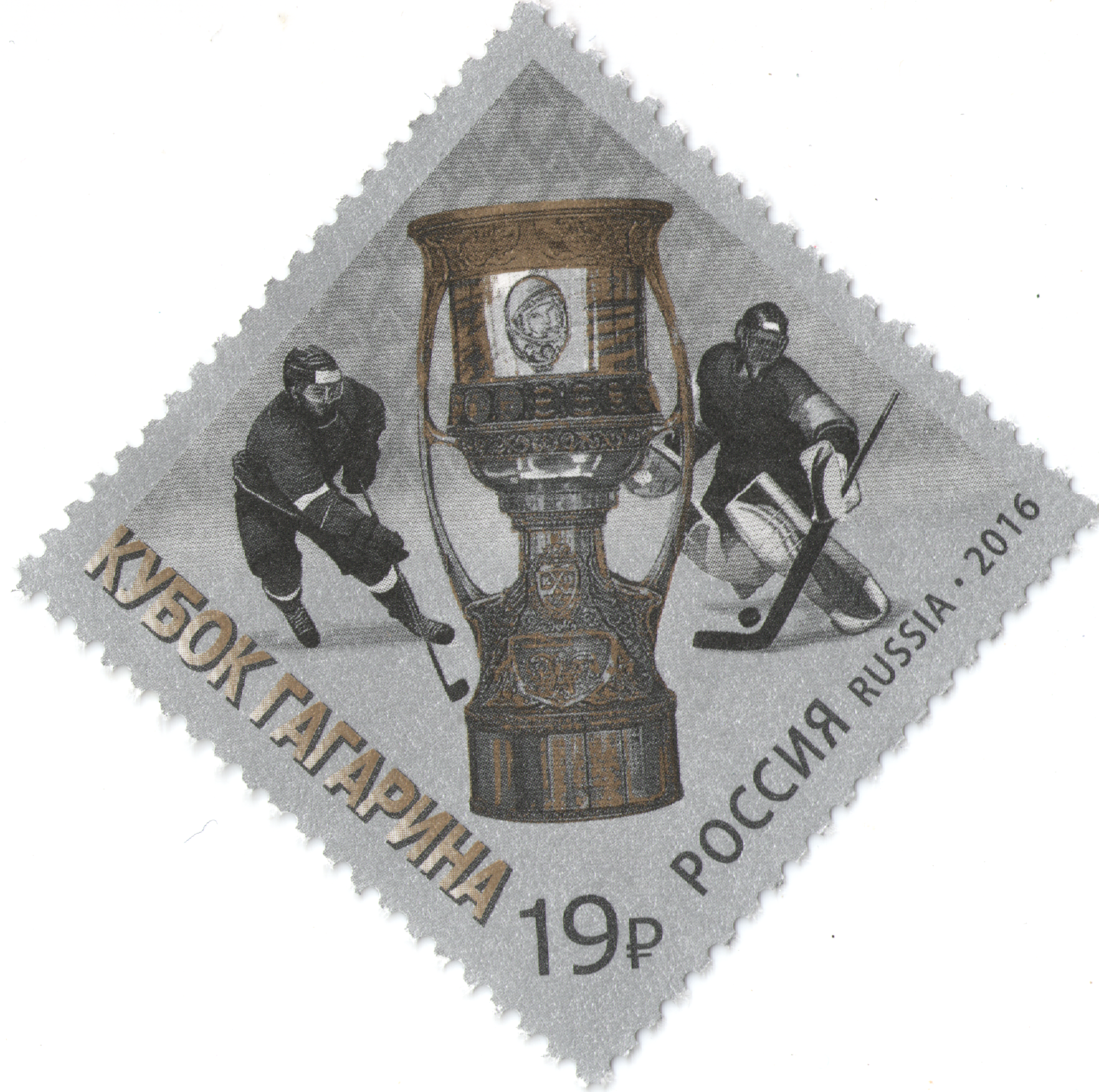 Russian postal stamp of Gagarin cup in hockey. Cost 5 roubles.